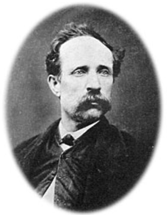 Carl Friedrich Theodor, Charles T. Willrich 1829-1906, Hannoverian descent, Soldier and Judge in Texas